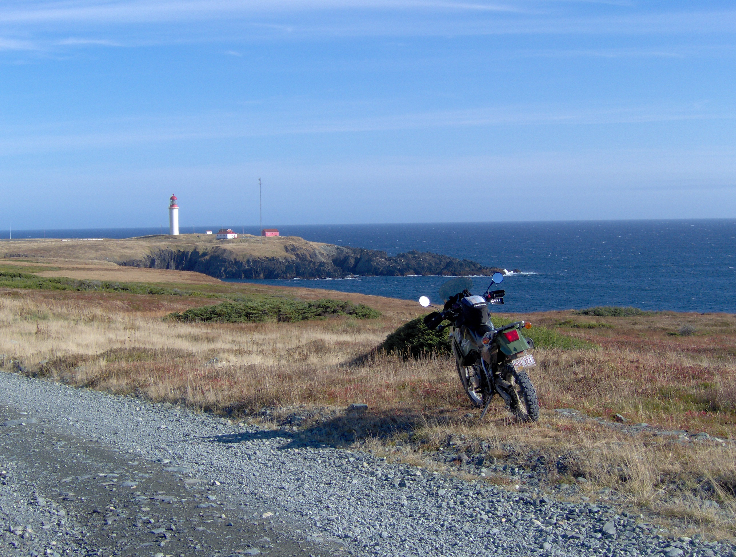 Cape Race Lighthouse National Historic Site of Canada